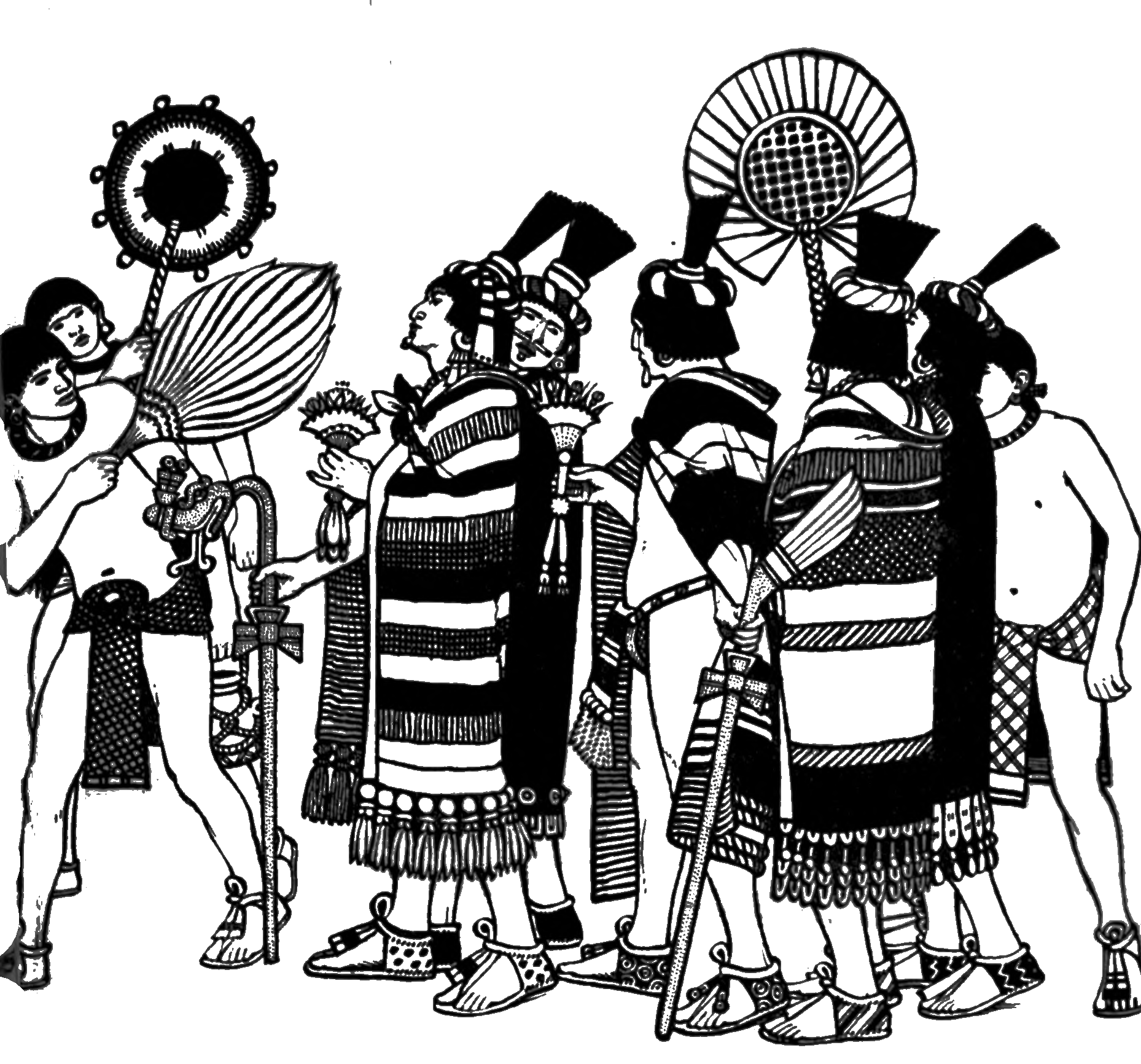 Arrival of the Aztec tribute collectors